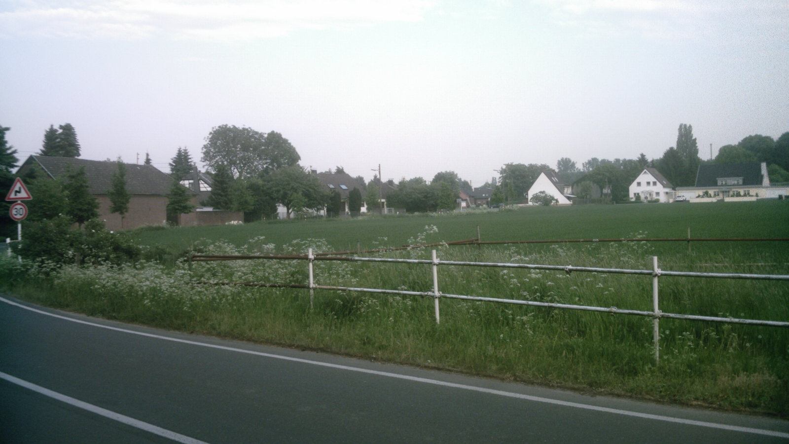 Donk, Neuwerk, Mönchengladbach.